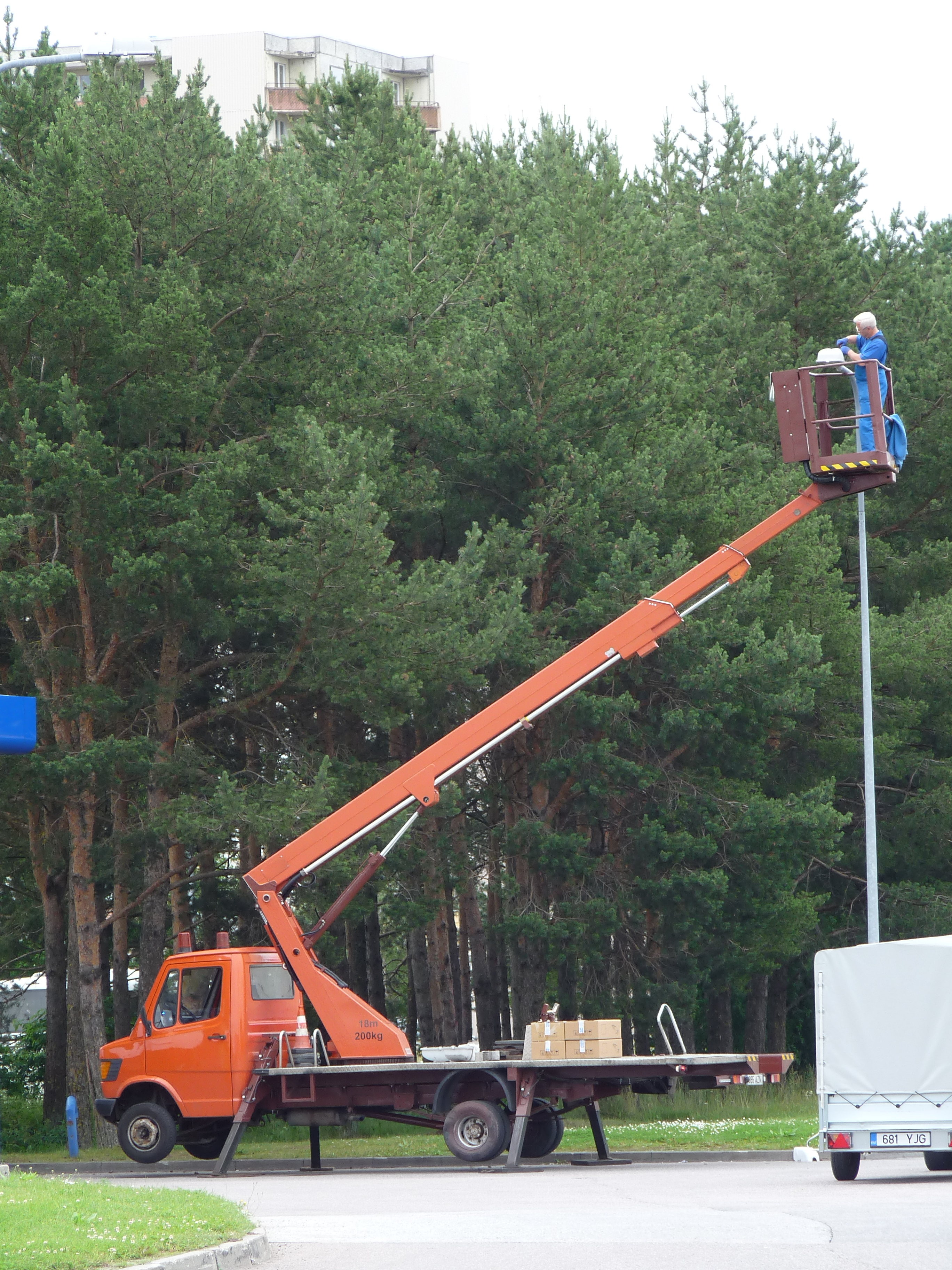 Electrician is repairing lamp